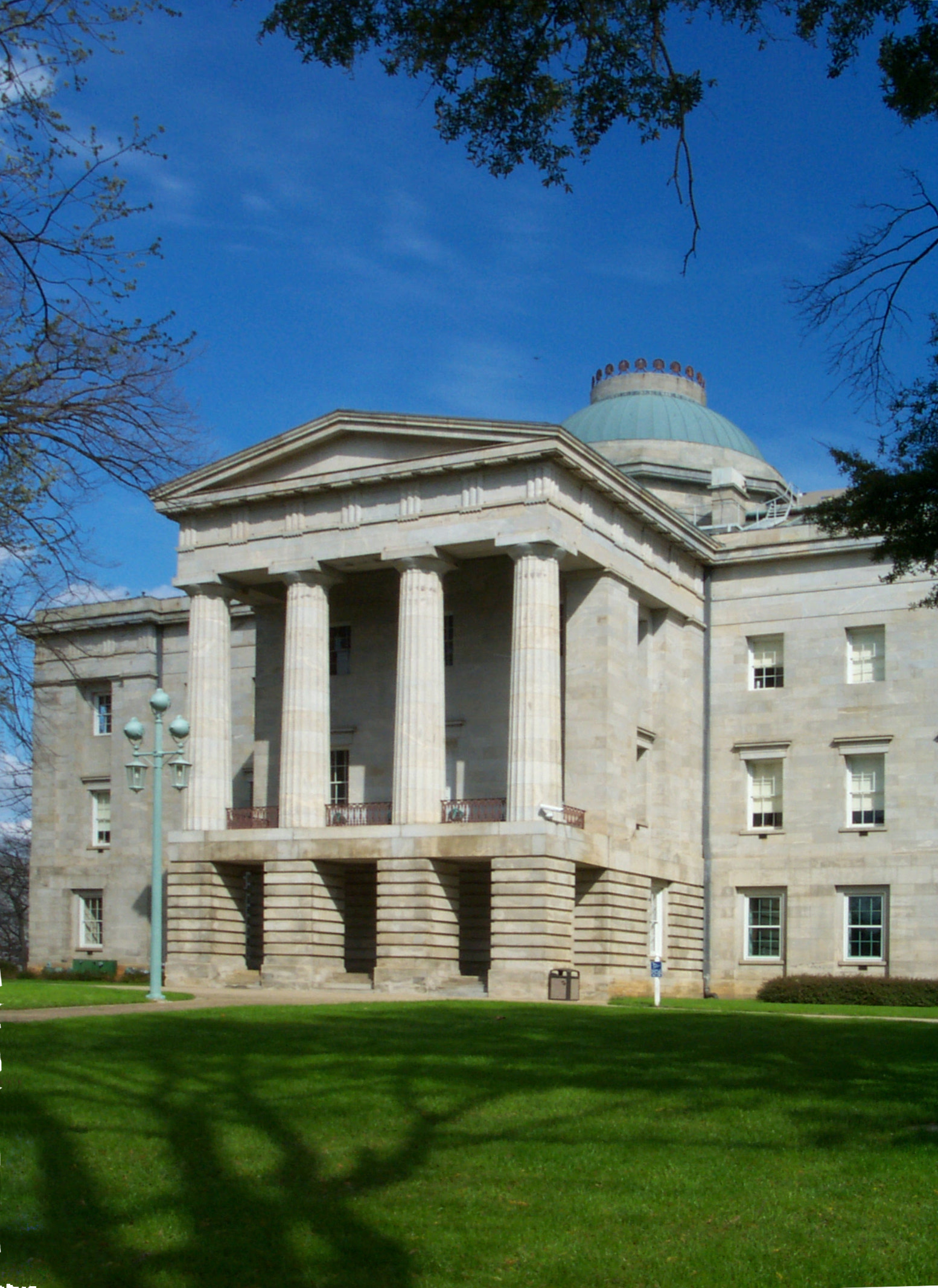 North Carolina State Capitol